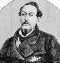 Tom Hyer (January 1, 1819 – June 26, 1864)